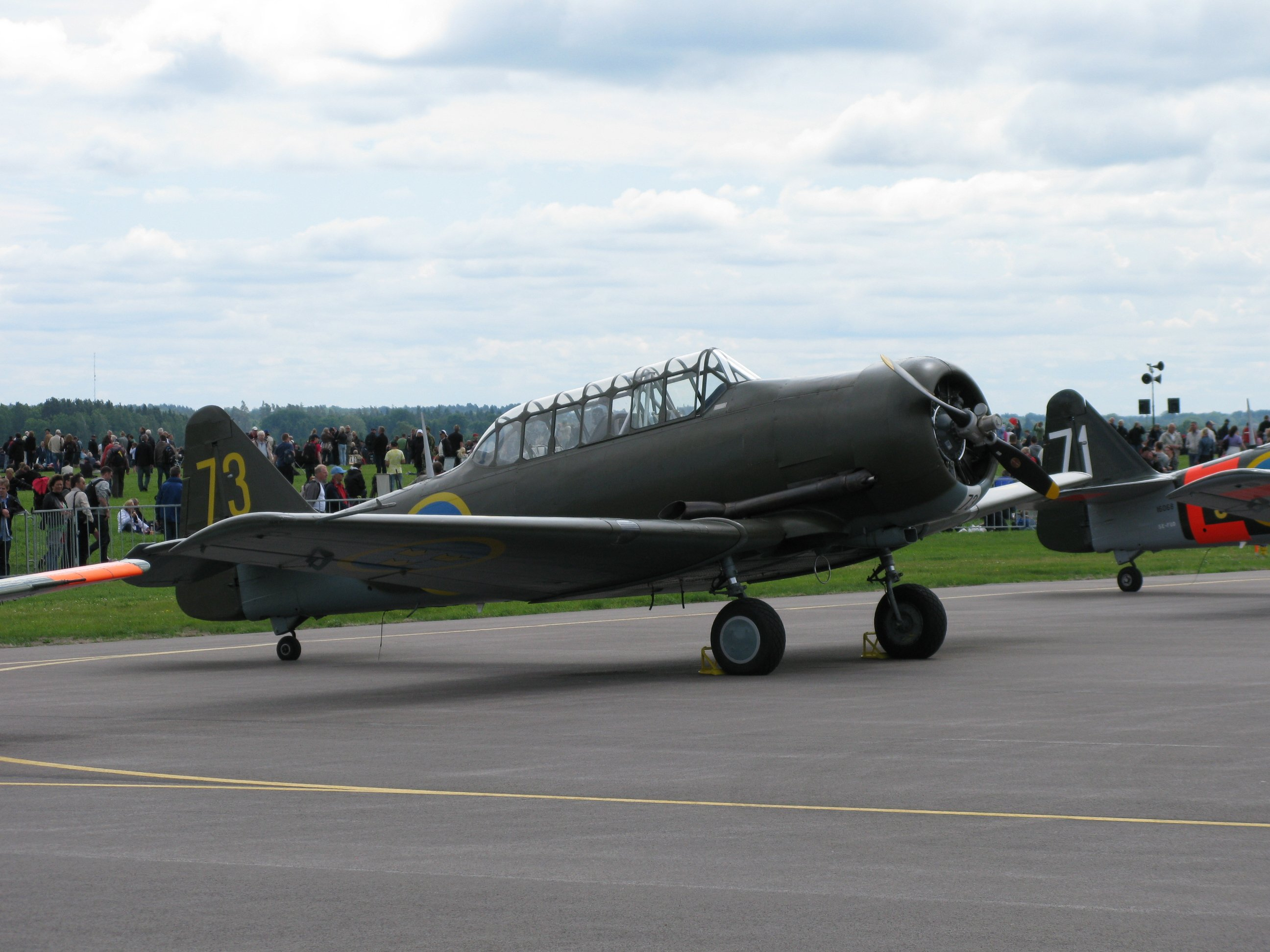 Norduyn Harvard IIb, Swedish Air Force designation Sk 16A, former Swedish Air Force s/n 16073, civ reg SE-FVU. Operated by “Swedish Air Force Historic Flight”. The Swedish Air Force bought 257 surplus Texan/Harvard trainers after the second world war. They were kept in service between 1947 and 1972. Event: Swedish Armed Forces’ Air Show at Malmen, Linköping 2010.